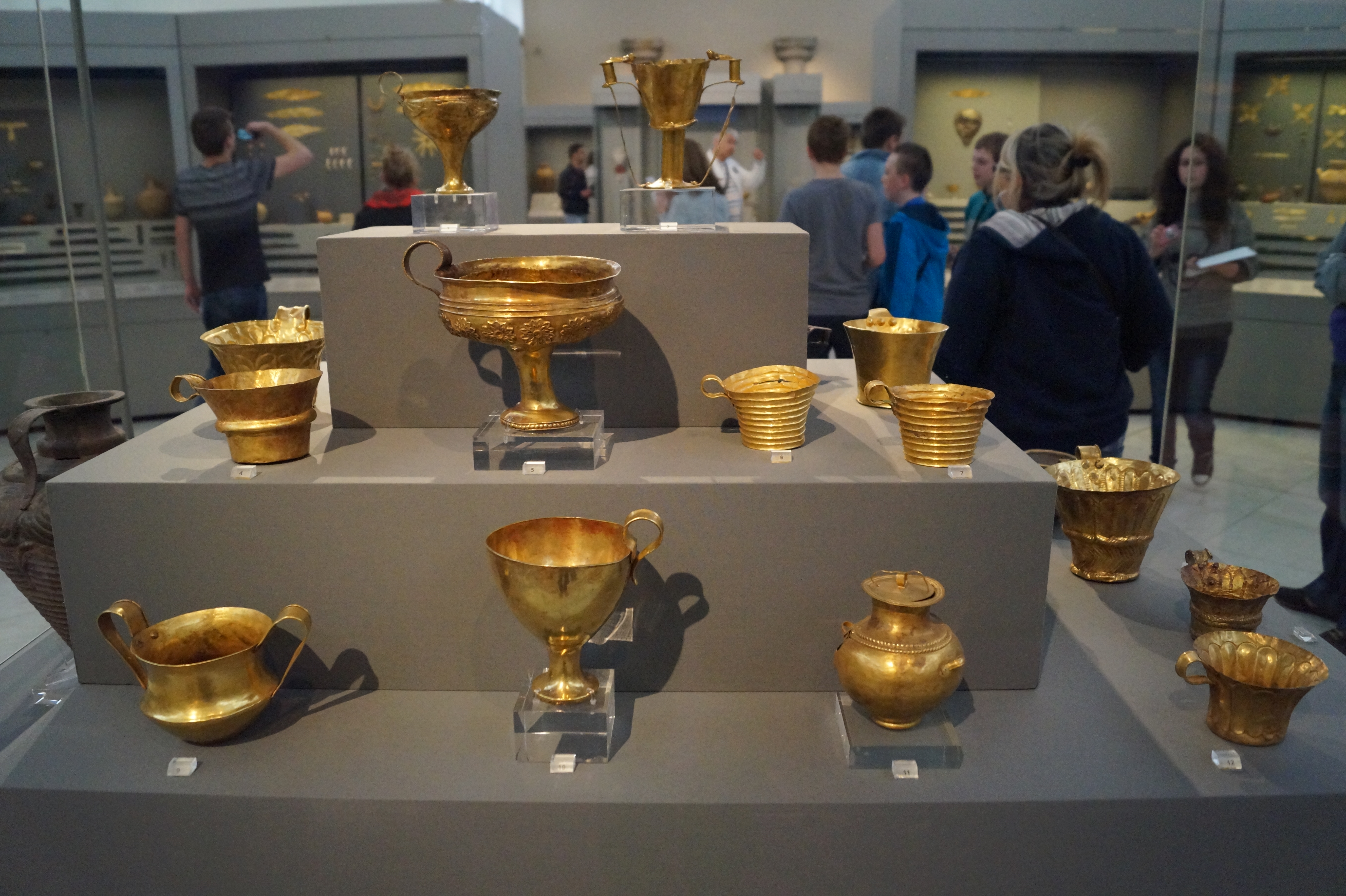 National Archaeological Museum of Athens: Golden cups from grave IV and V of grave circle A at Mykenae.